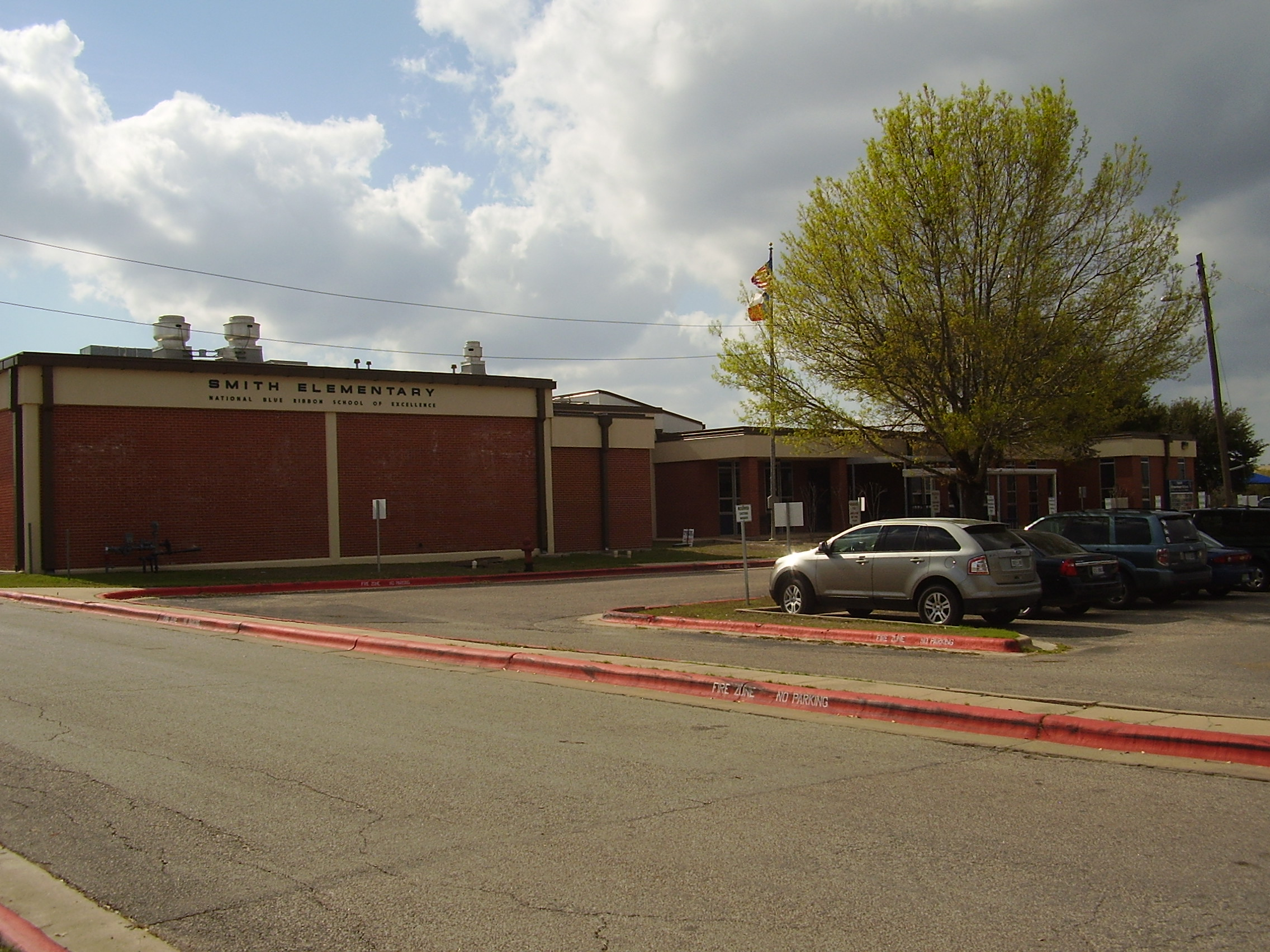 Smith Elementary School - Austin, Texas, USA